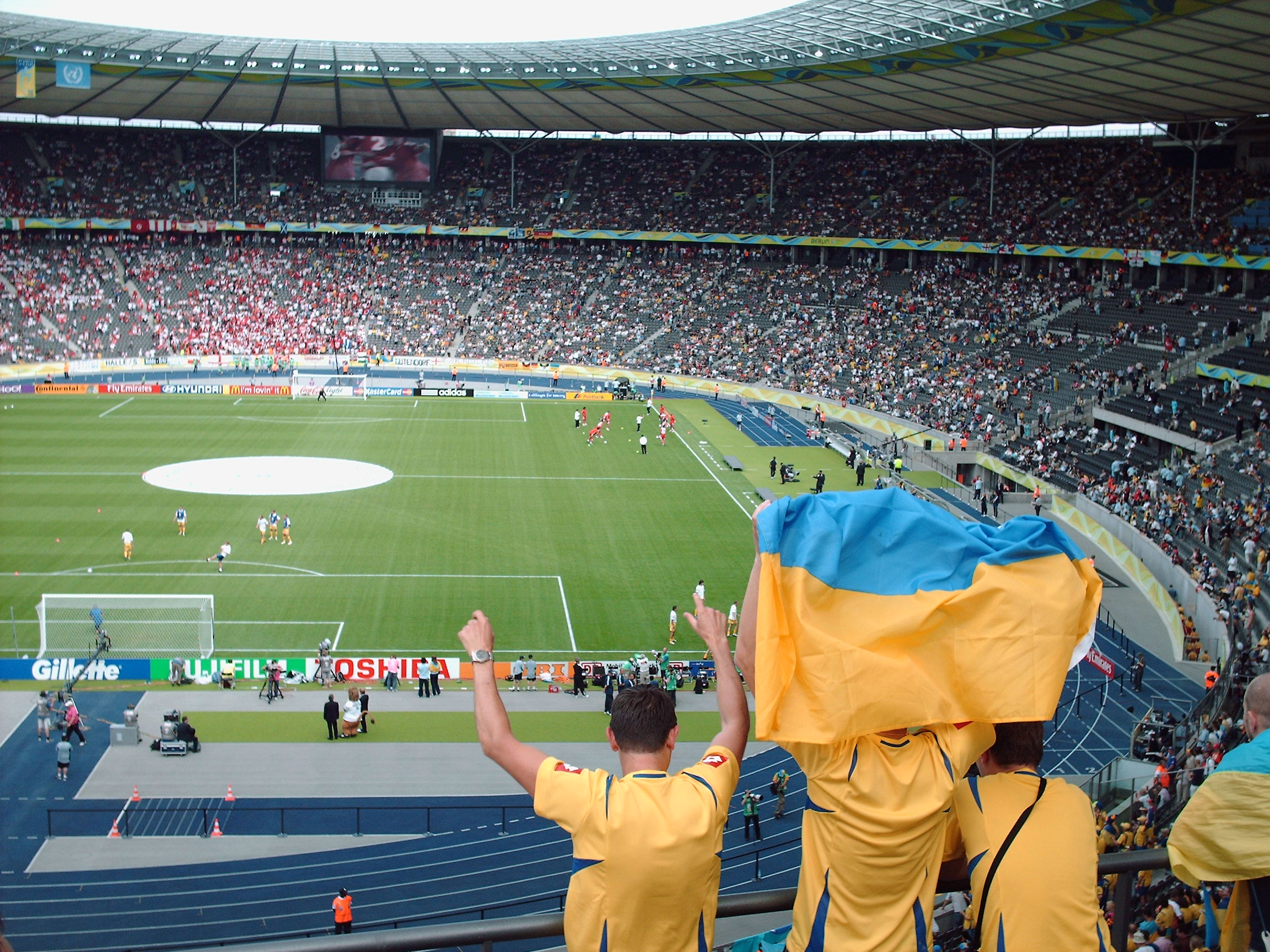 Ukrainians supporters, Berlin 2006